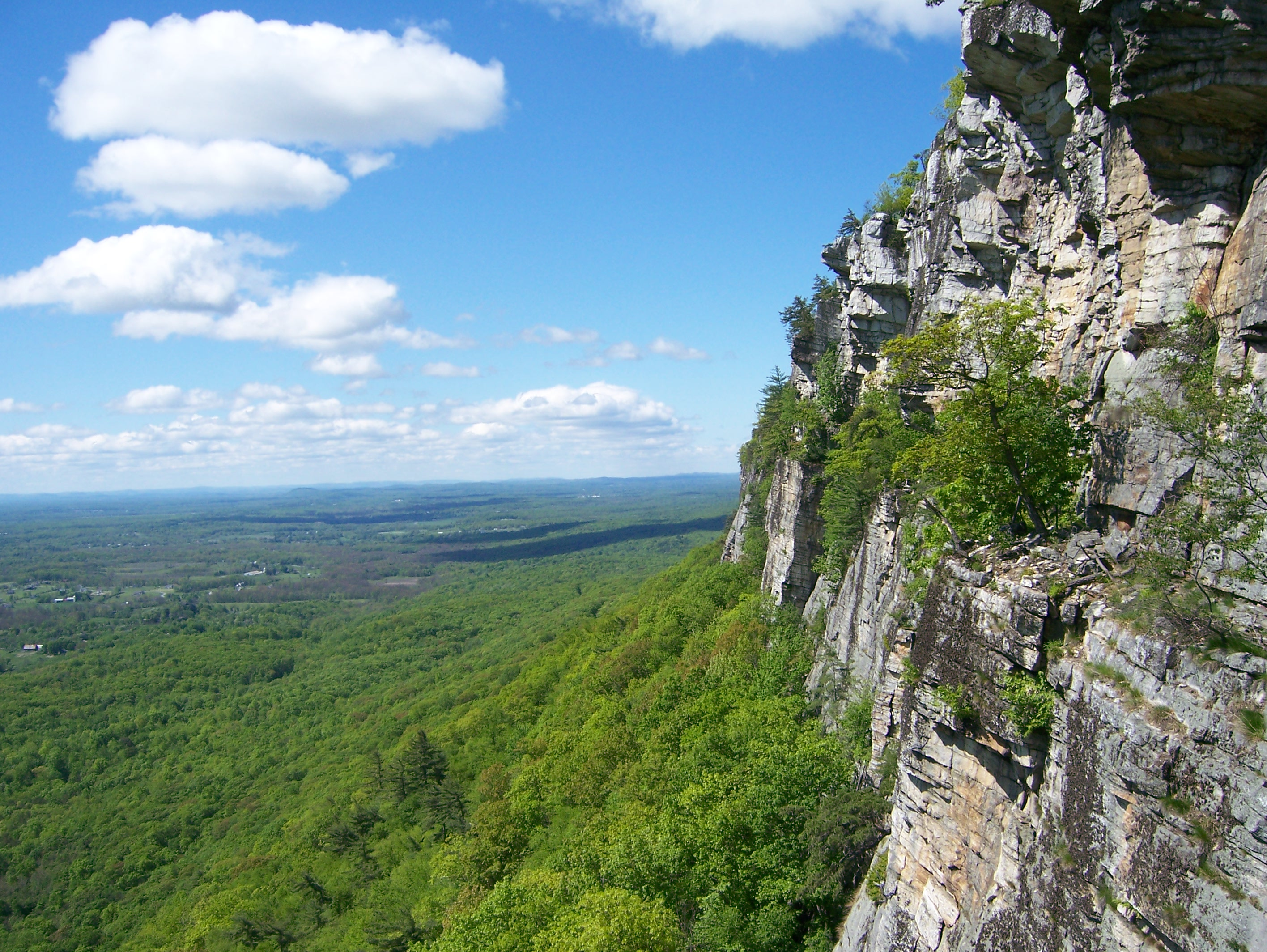 The Trapps cliff of Shawangunk Ridge located at Mohonk Preserve near New Paltz, New York. Photograph taken from GT Ledge of High Exposure route.